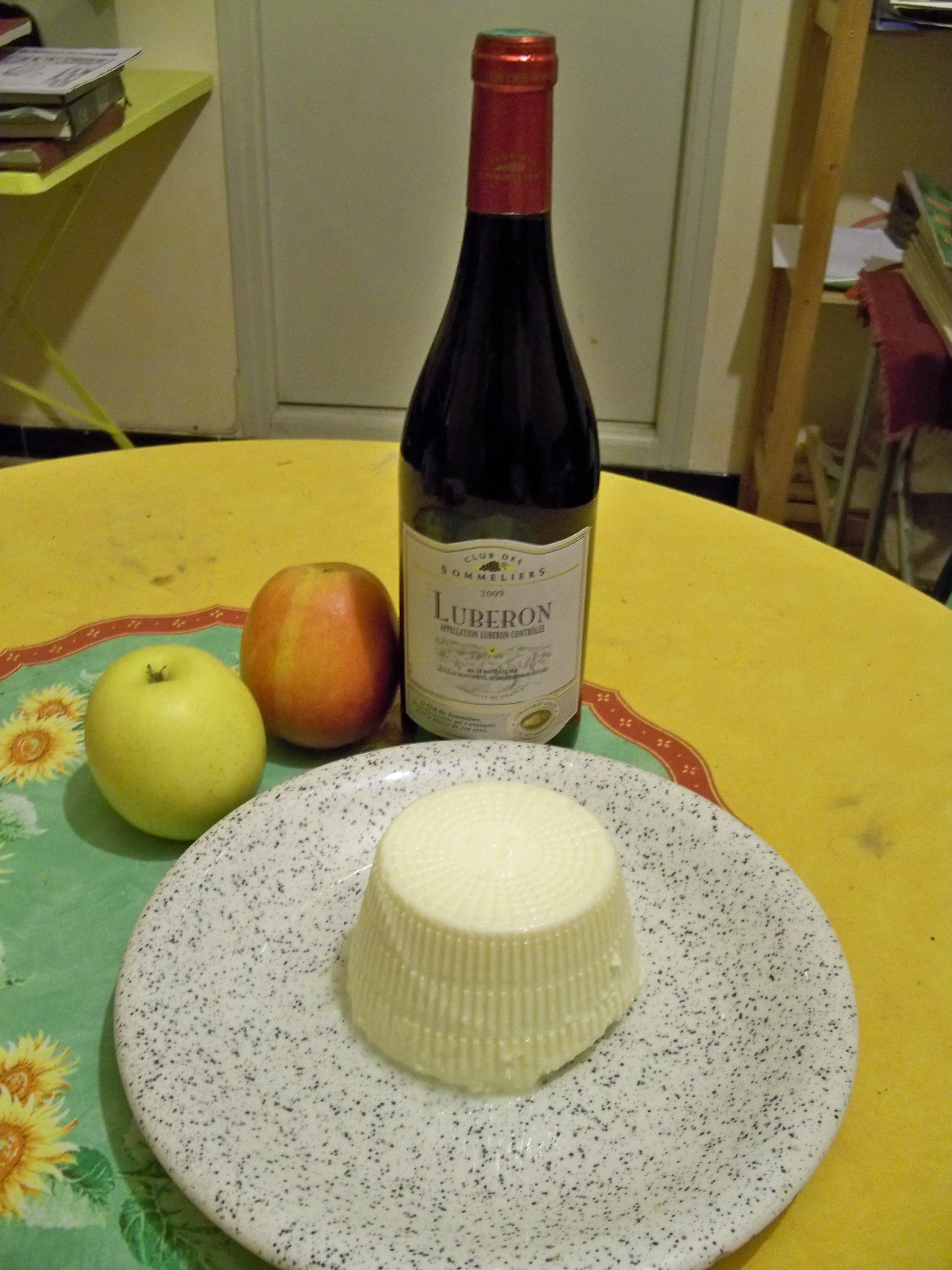 Brousse cheese and Cotes du Luberon wine